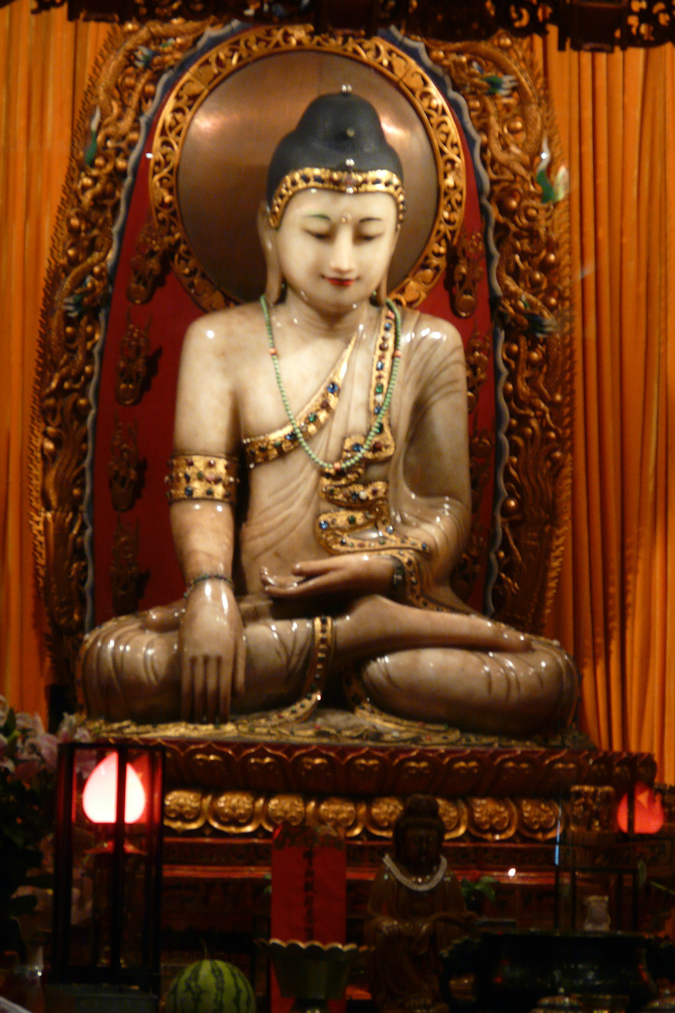 Jade Buddha in the Jade Buddha Temple, Shanghai